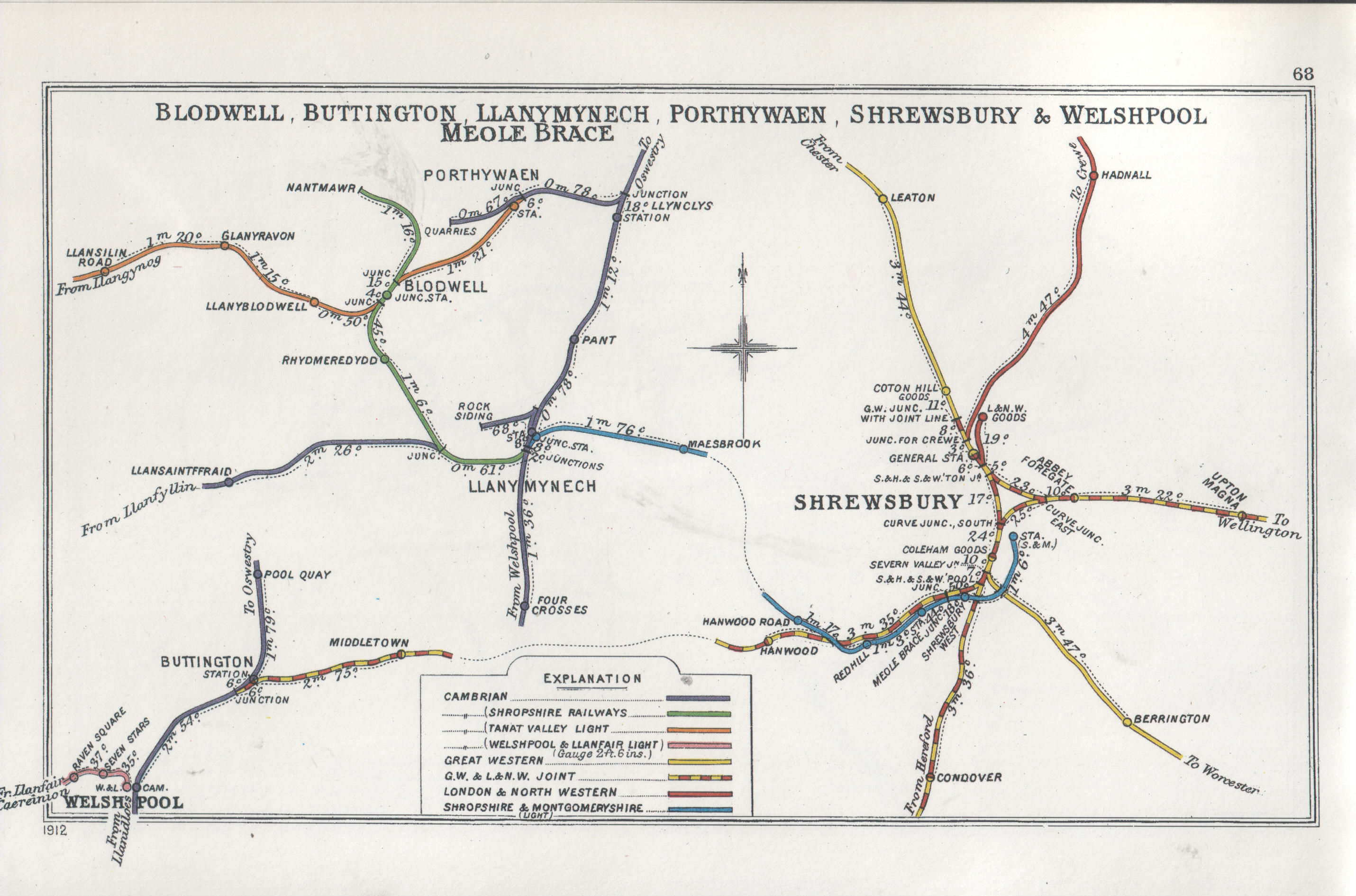 Pre Grouping railway junction around Blodwell, Buttington, Llanymynech, Porthywaen, Shrewsbury & Welshpool; Meole Brace